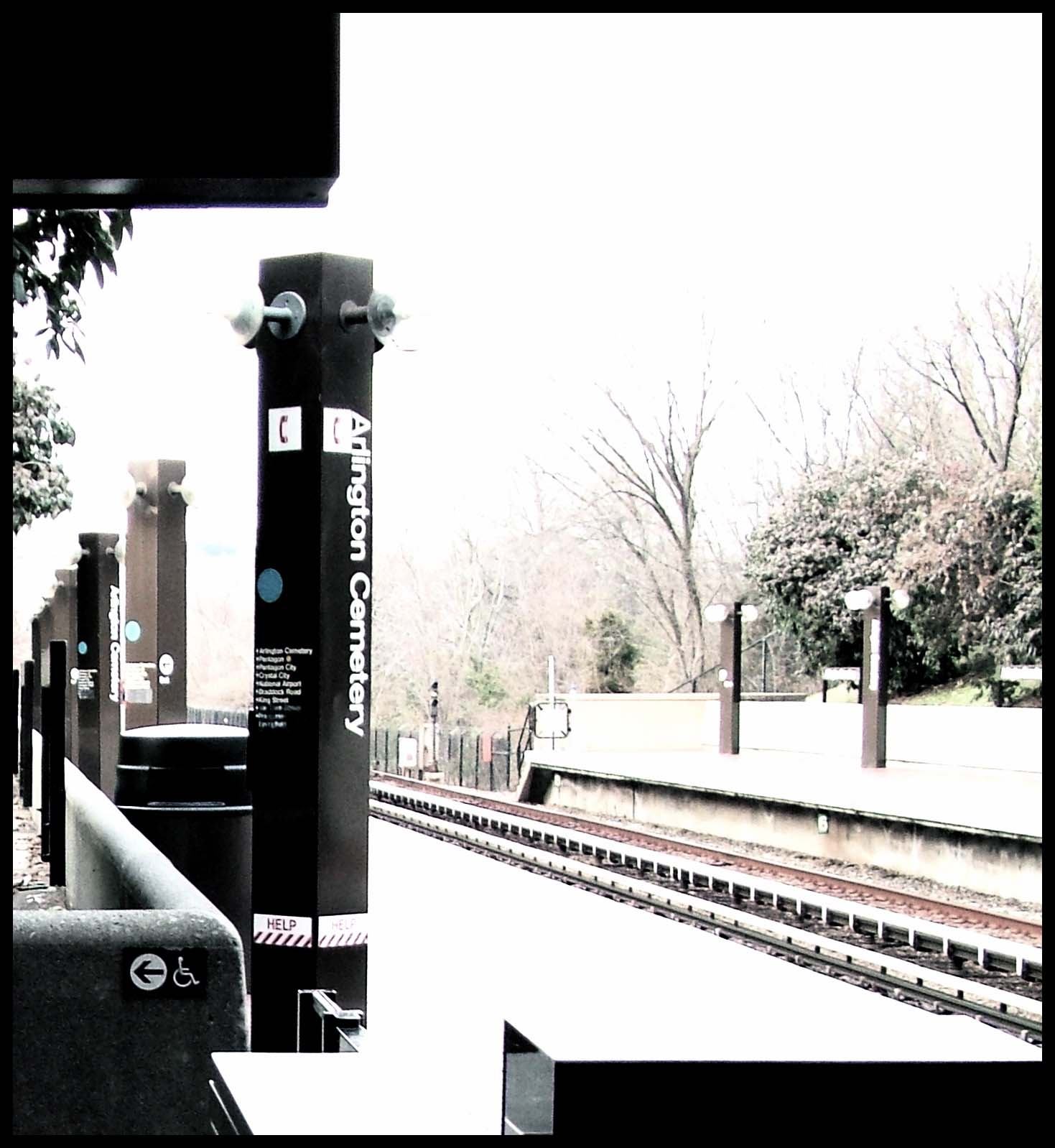 Arlington National Cemetery Metro station in Arlington, Virginia.